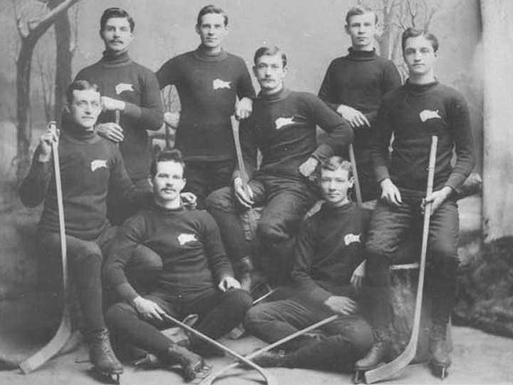 Winnipeg Victorias], winners of the Stanley Cup in February, 1896.